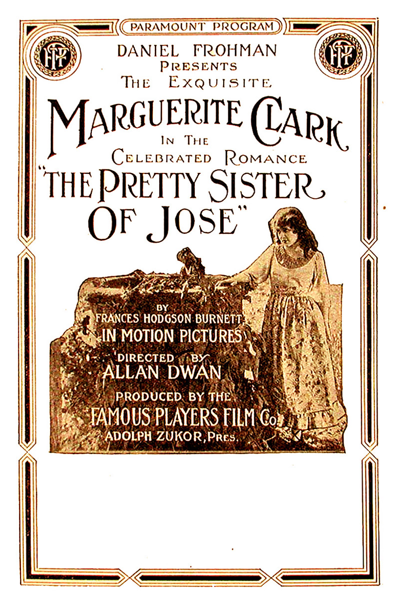 For article The Pretty Sister of Jose, this is a theatrical poster for the 1915 film The Pretty Sister of Jose, and was first published before 1923.